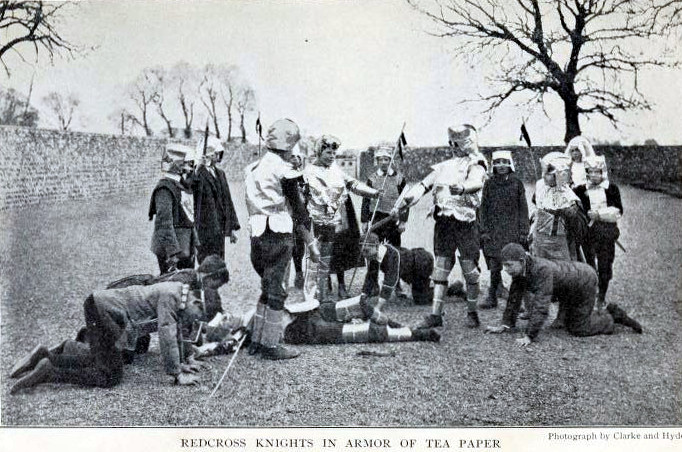 Harriet Finlay-Johnson or Harriet Johnson or Harriet Weller (12 March, 1871 – 1956) was a British educationalist and schoolteacher known for encouraging children to create dramas to improve their education. A sene from one of the dramas.